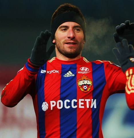 Zoran Tošić